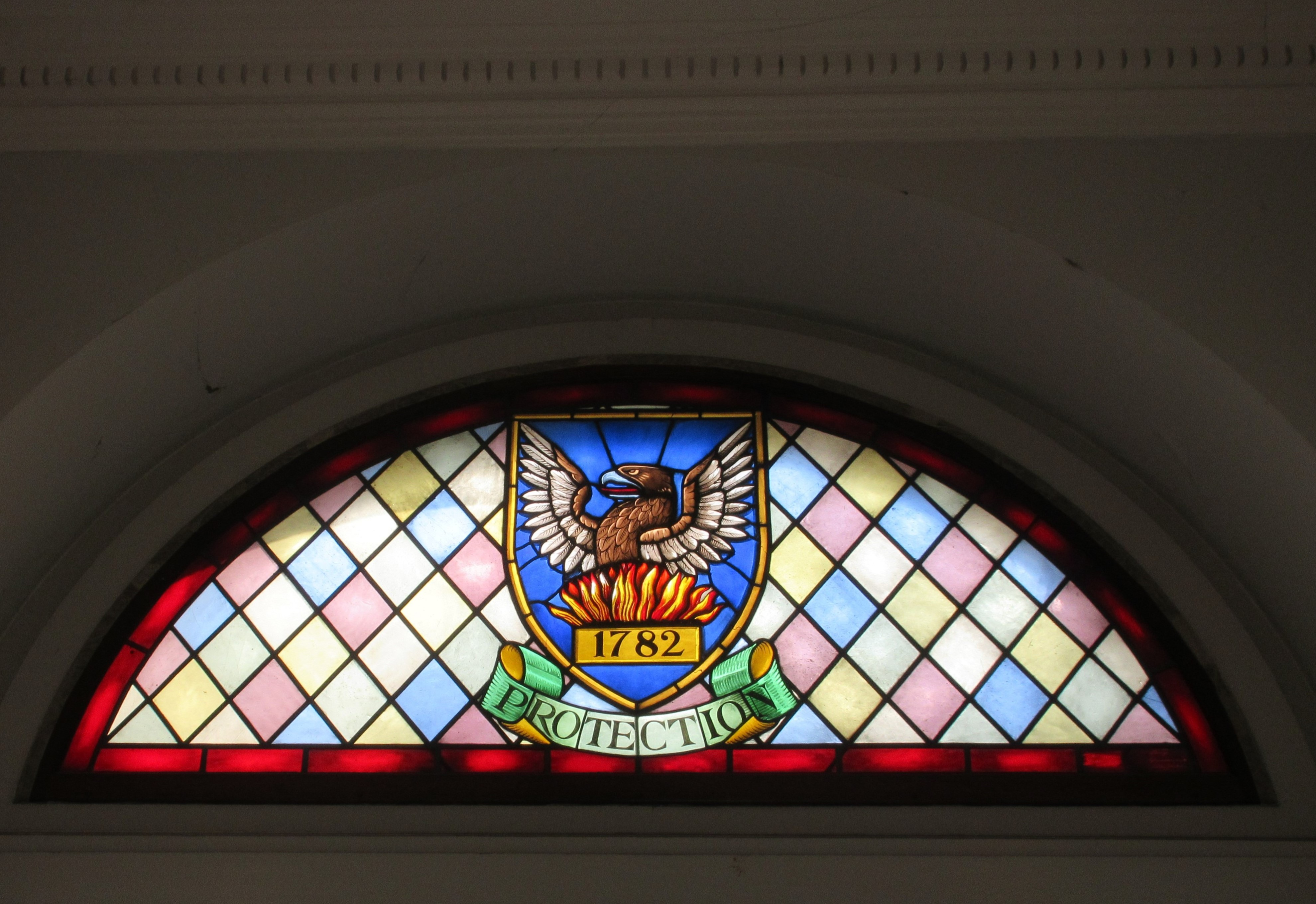 Danneskiold-Laurvig Mansion in Store Kongensgade in Copenhagen, Denmark